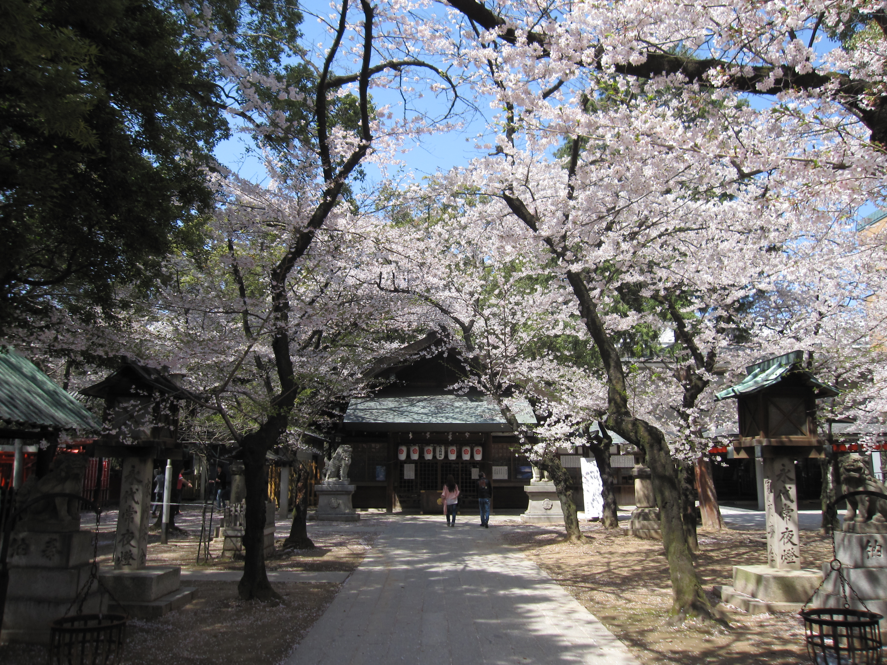 The Nagoya Shrine was established in the year 911 and is dedicated to the Shinto god Susano-no-mikoto. Called Tennosha, it was moved to its present site in 1876 from within the grounds of Nagoya Castle, for which it was considered to be the guardian deity.